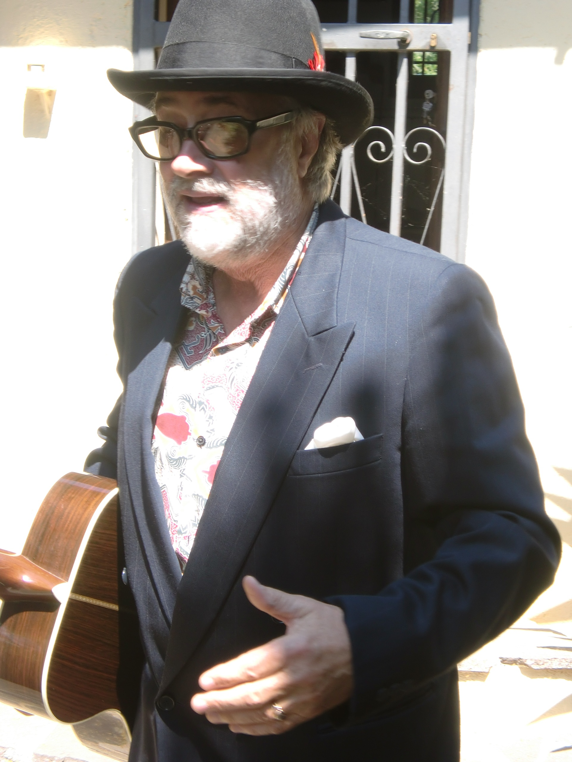 Francis Kuipers at his house